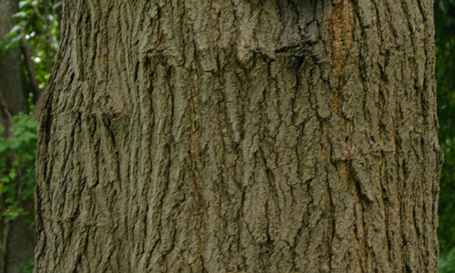 White Mulberry Bark (Morus alba).